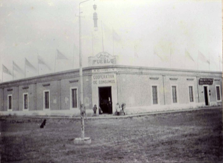 General house